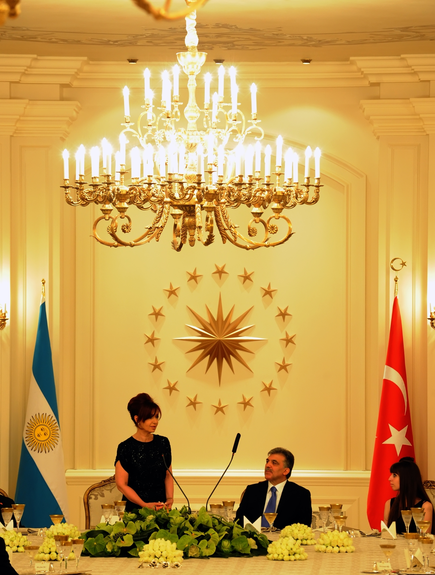 Turkish President Abdullah Gül (C) and Argentina President Cristina Fernandez de Kirchner (R) and her daughter Florencia Kirchner (L) at the Cankaya presidential palace in Ankara, Turkey. Kirchner is in Turkey for a three-day state visit.